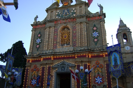 Ghaxaq Parish Church exterior decorated for the Titular(main) feast of the Assumption of our Lady known as Santa Maria. Malti: Il-faccata tal-Knisja ta' Hal Ghaxaq armata fil-festa Titulari ta' Santa Marija.